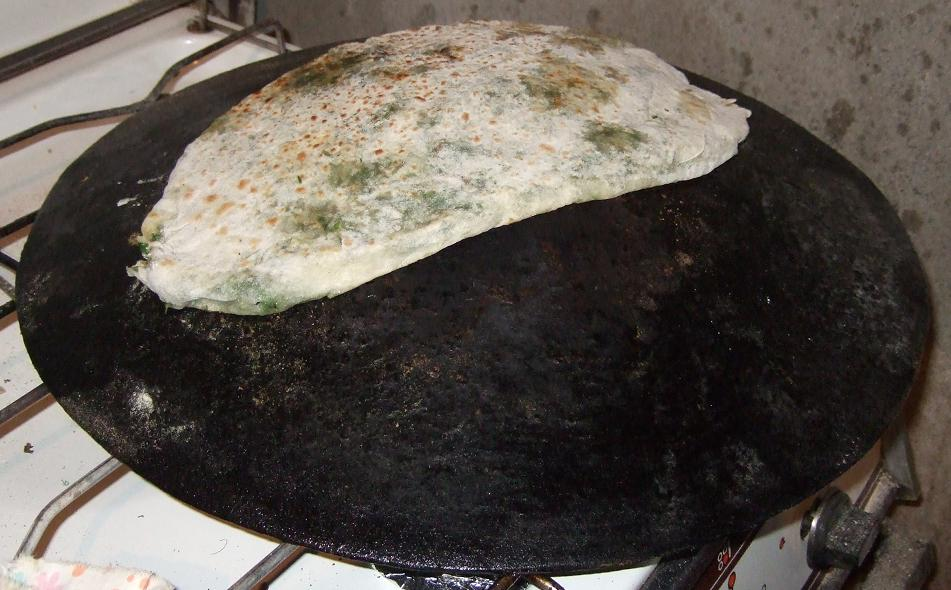 Zhengyalov hats on saj